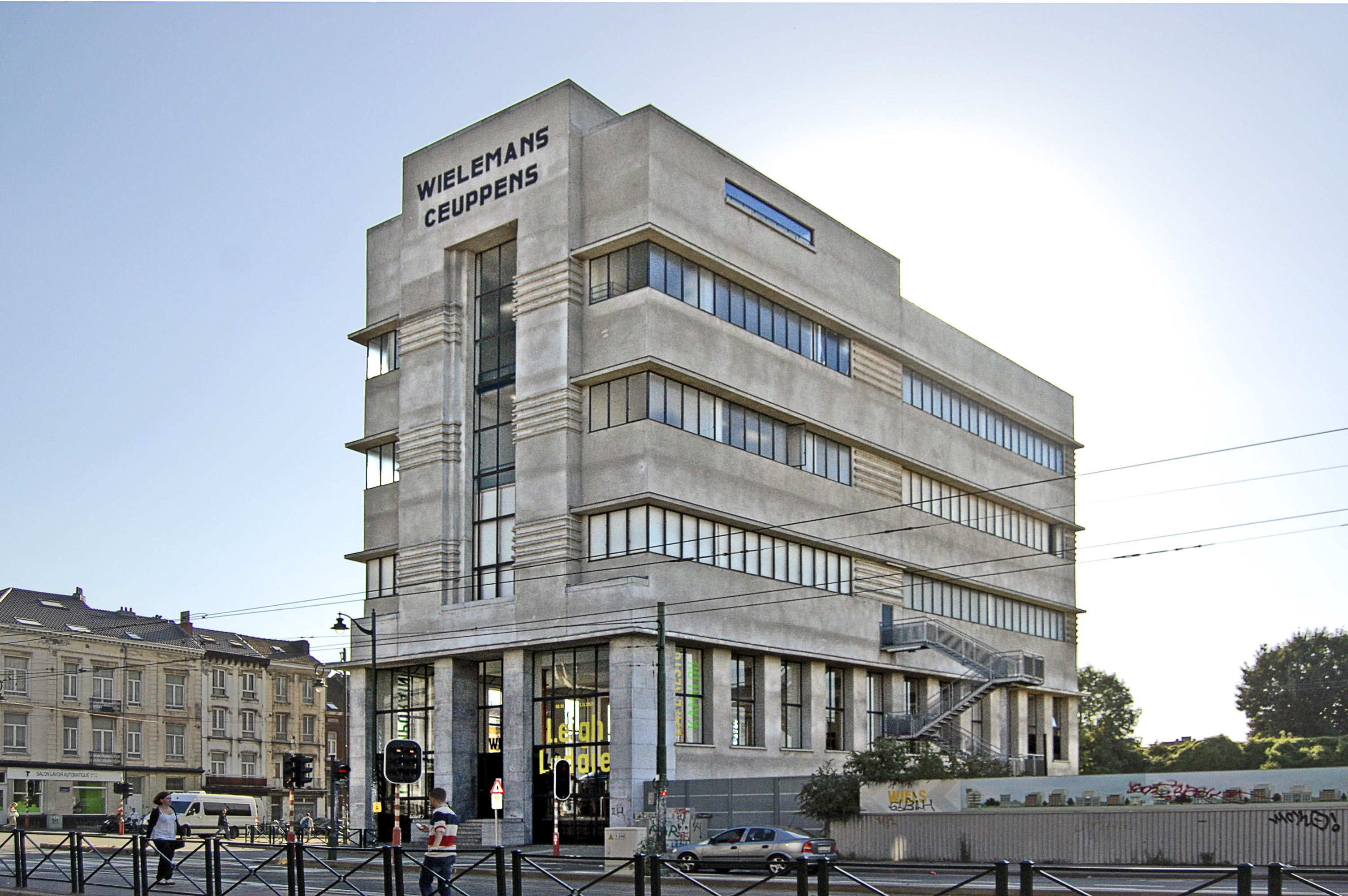 Former brewery "Wielemans-Ceuppens", housing now the centre for contemporary art "Wiels"